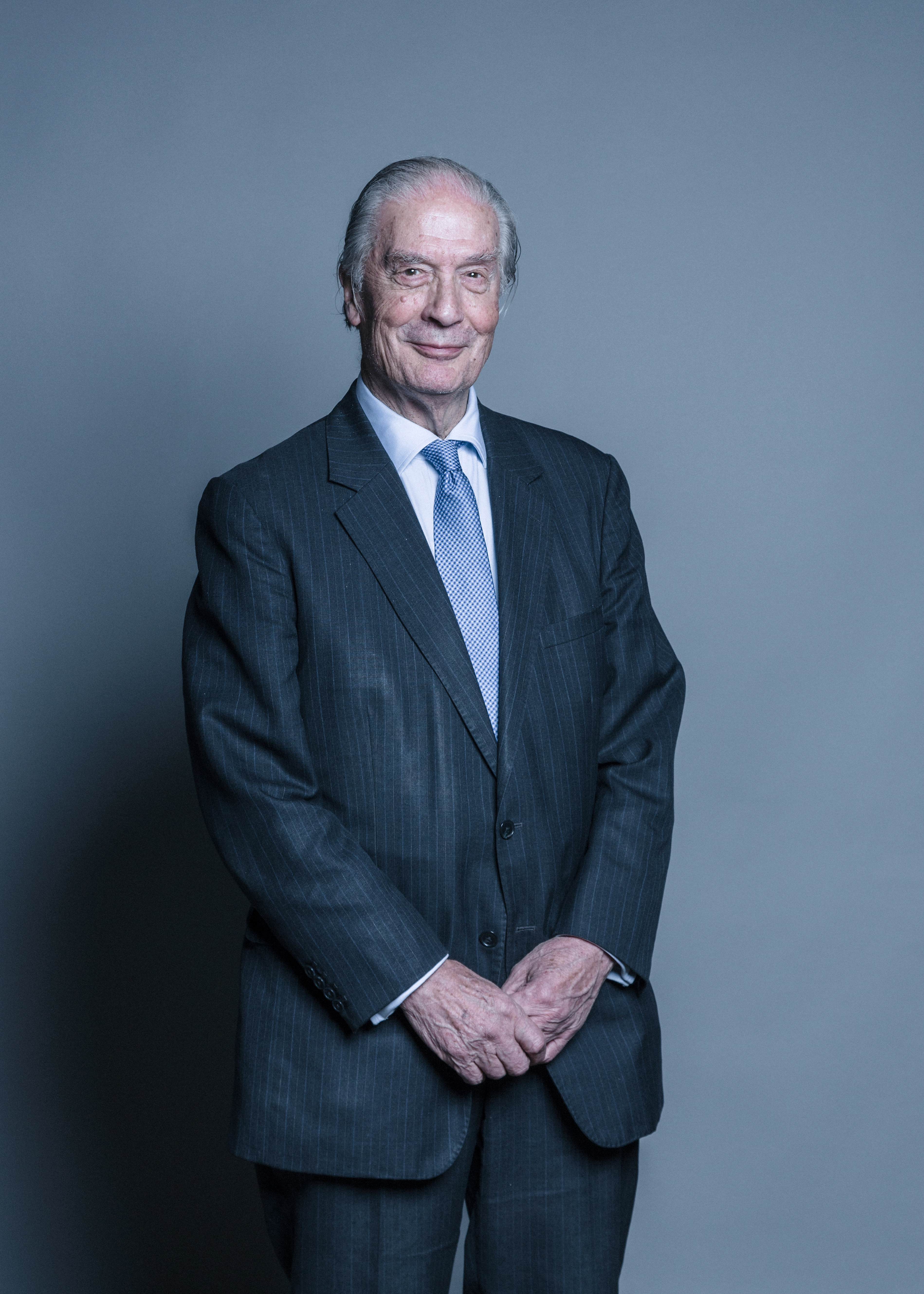 Official portrait of Lord Dixon-Smith